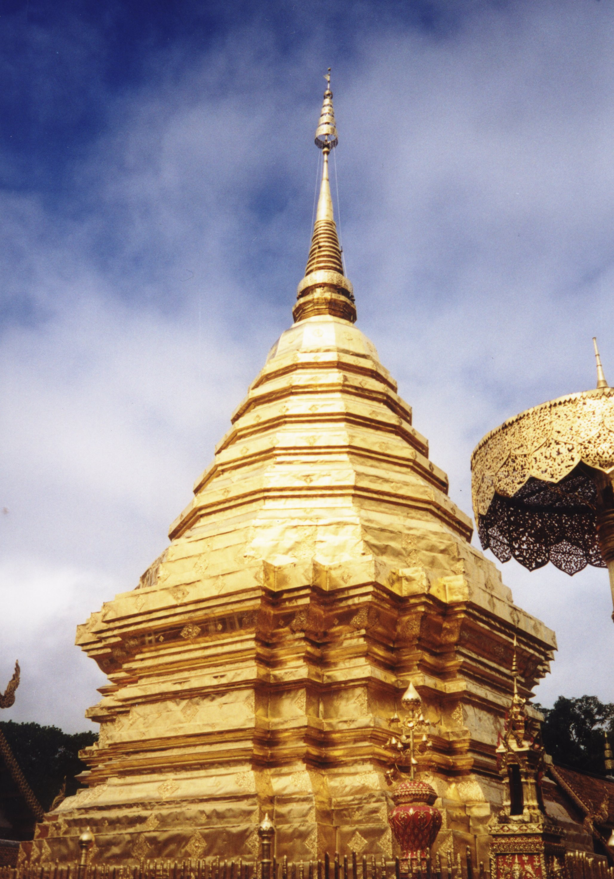 The chedi of Doi Suthep Source: Taken by User:Ahoerstemeier on October 31 2000